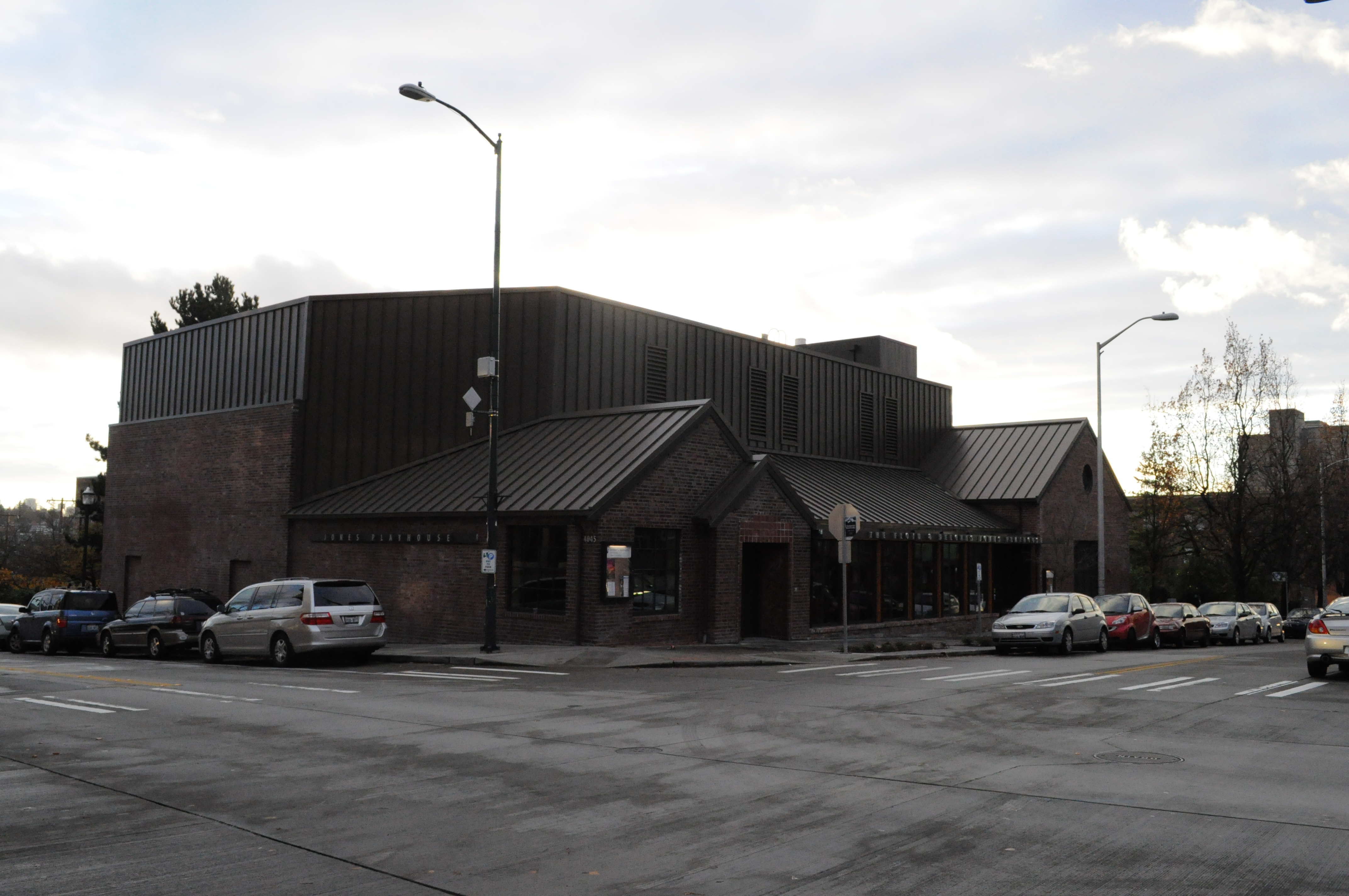 Playhouse Theater, University of Washington, Seattle, Washington, USA, a year or so after a major remodeling.